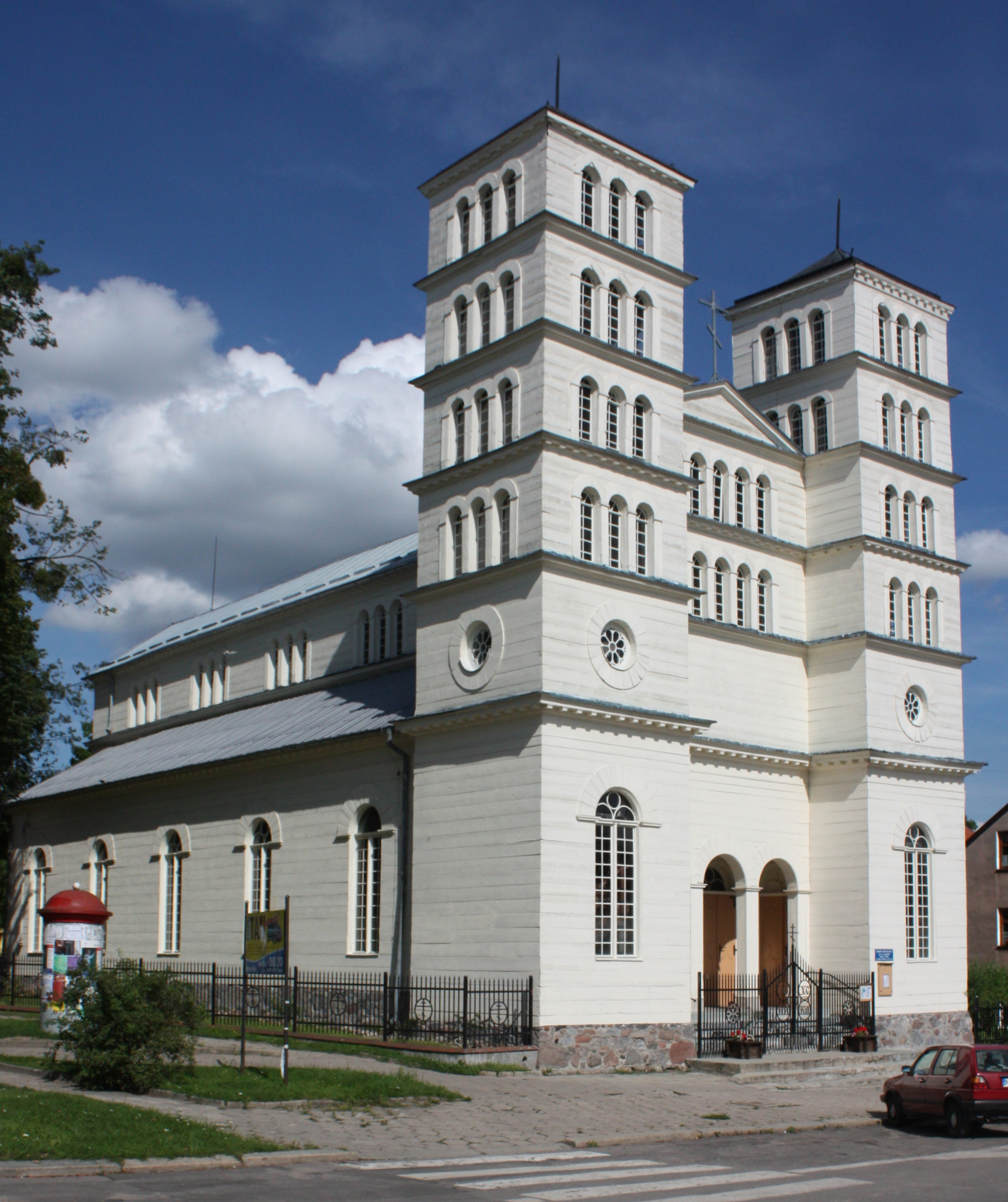 This photo of Warmian-Masurian Voivodeship was taken during Wikiexpedition 2012 set up by Wikimedia Polska Association. You can see all photographs in category Wikiekspedycja 2012. The making of this document was supported by Wikimedia Polska.